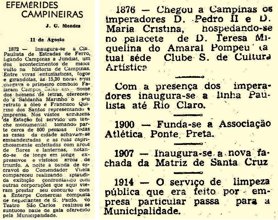 Ephemeris of August 11 of the Inauguration of Cia. Paulista de Estradas de Ferro and of the football club Associação Atlética Ponte Preta. The Campinas club was founded on that day to honor the inauguration of Companhia Paulista de Estradas de Ferro, the first stretch between Jundiaí and Campinas.